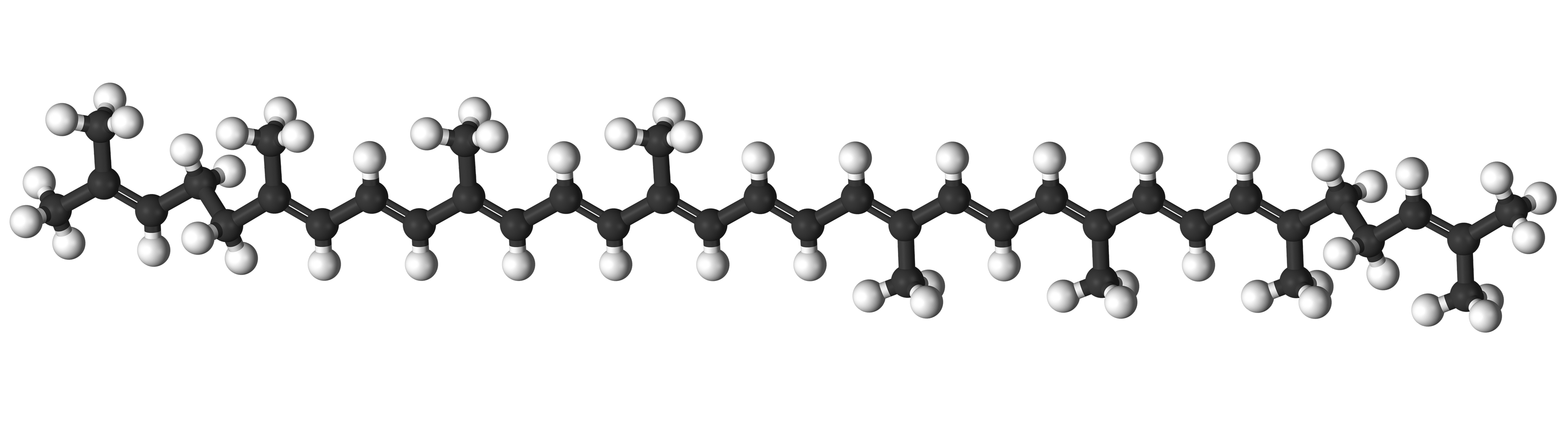 Ball-and-stick model of the lycopene molecule.